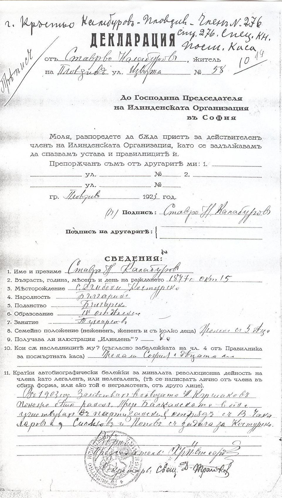 Declaration of Stavrо (Krsto) Kalaburov on joining the Ilinden organization. 1923